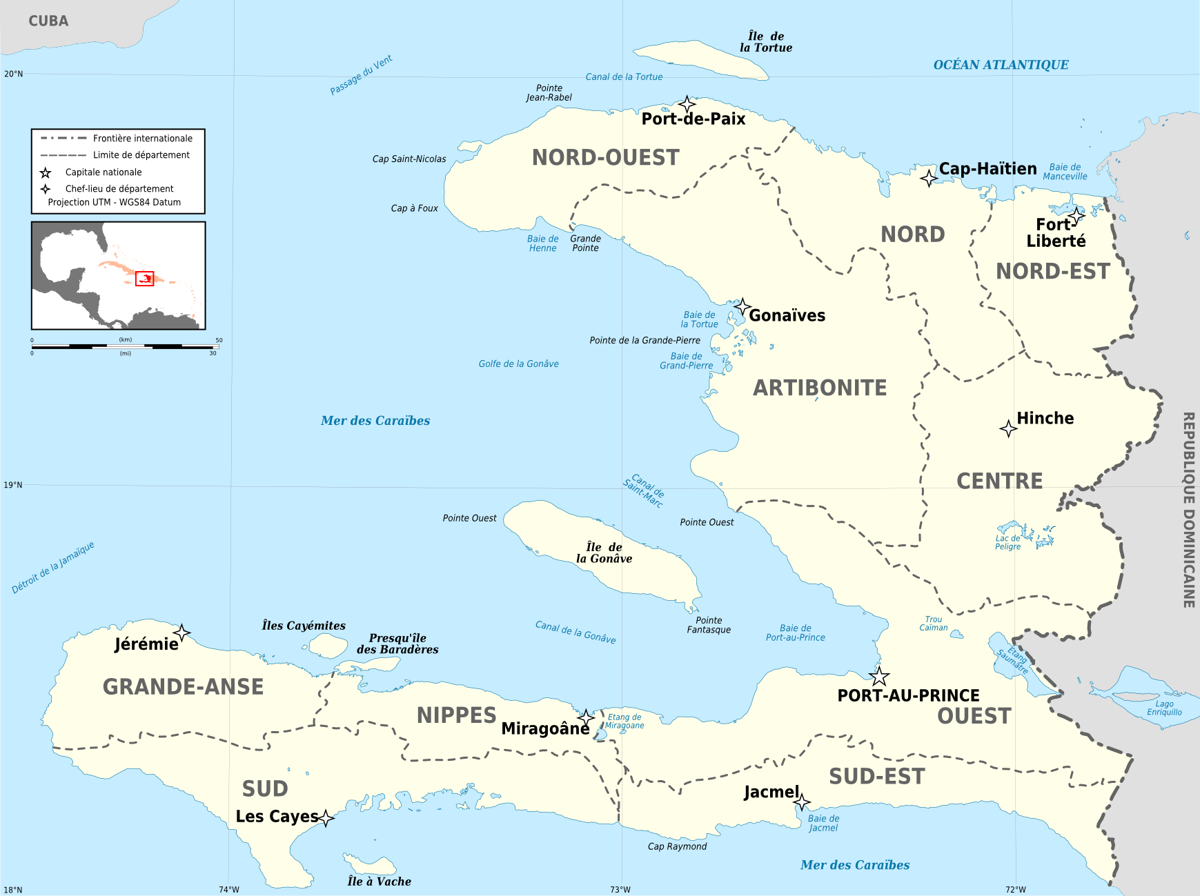 Map of the départements of Haiti in French.